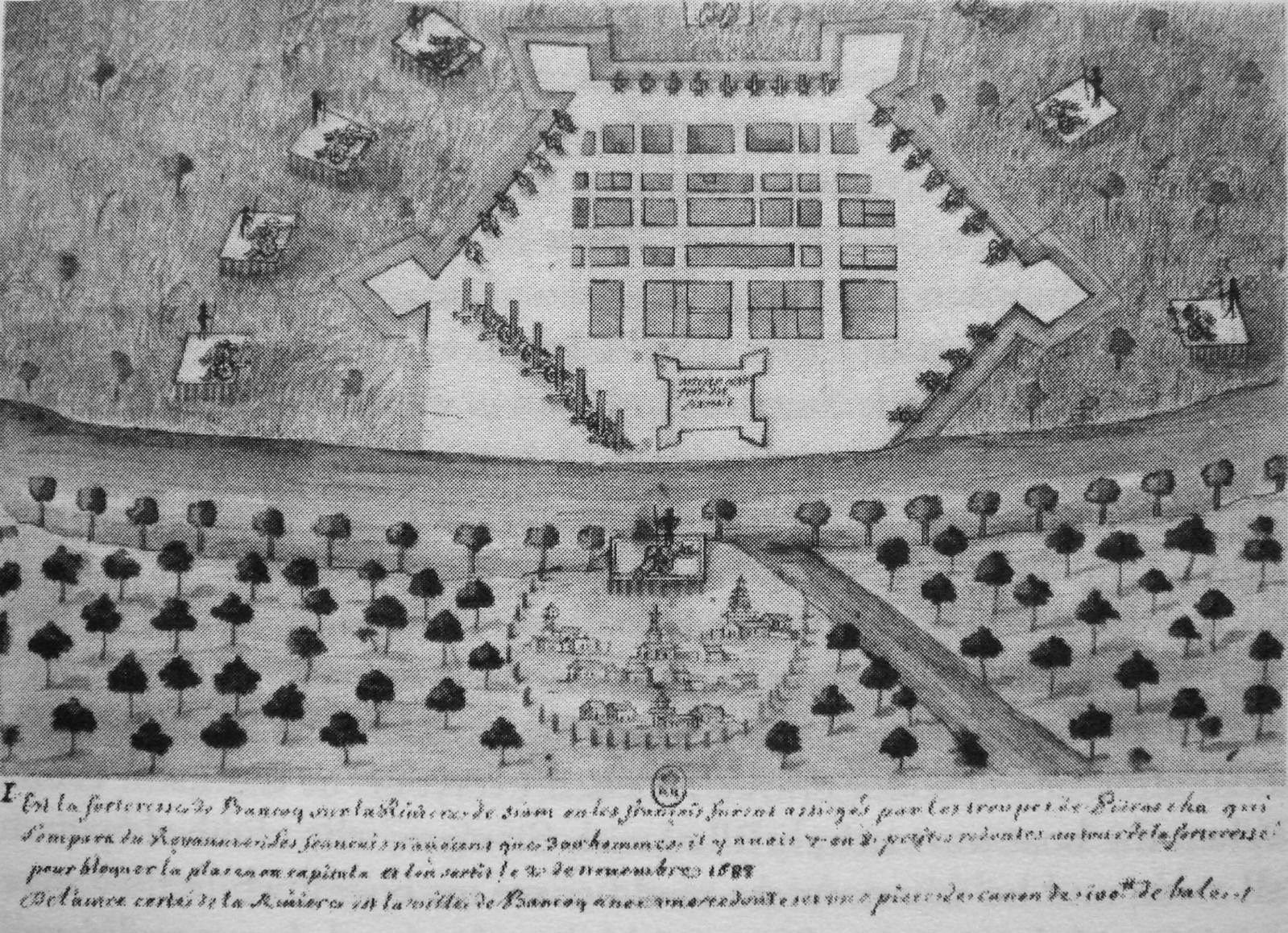 Siege of the French fortress of Bangkok by Siamese revolutionary forces, 1688